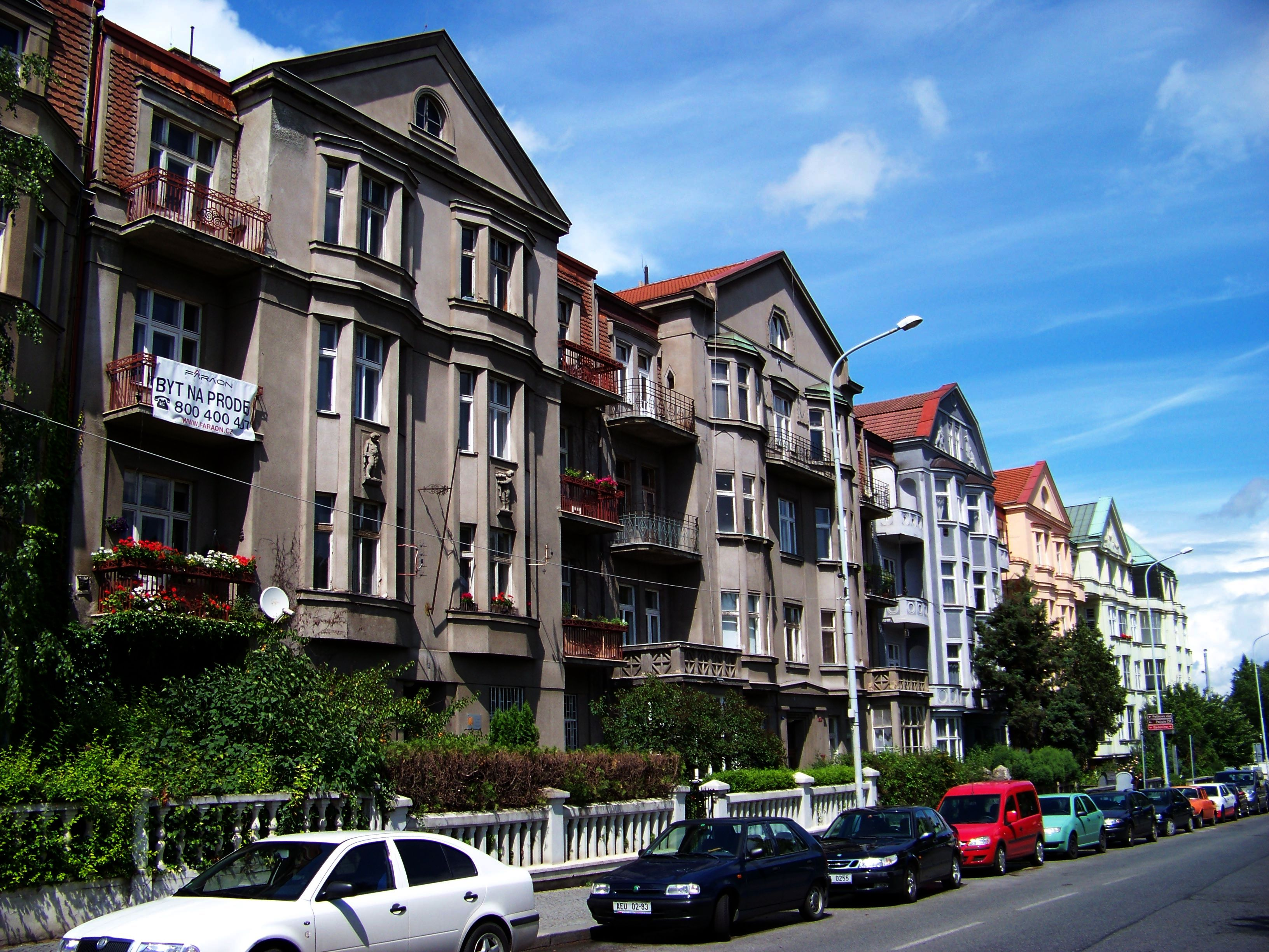 Prague-Hradčany, the Czech Republic. Na valech street.